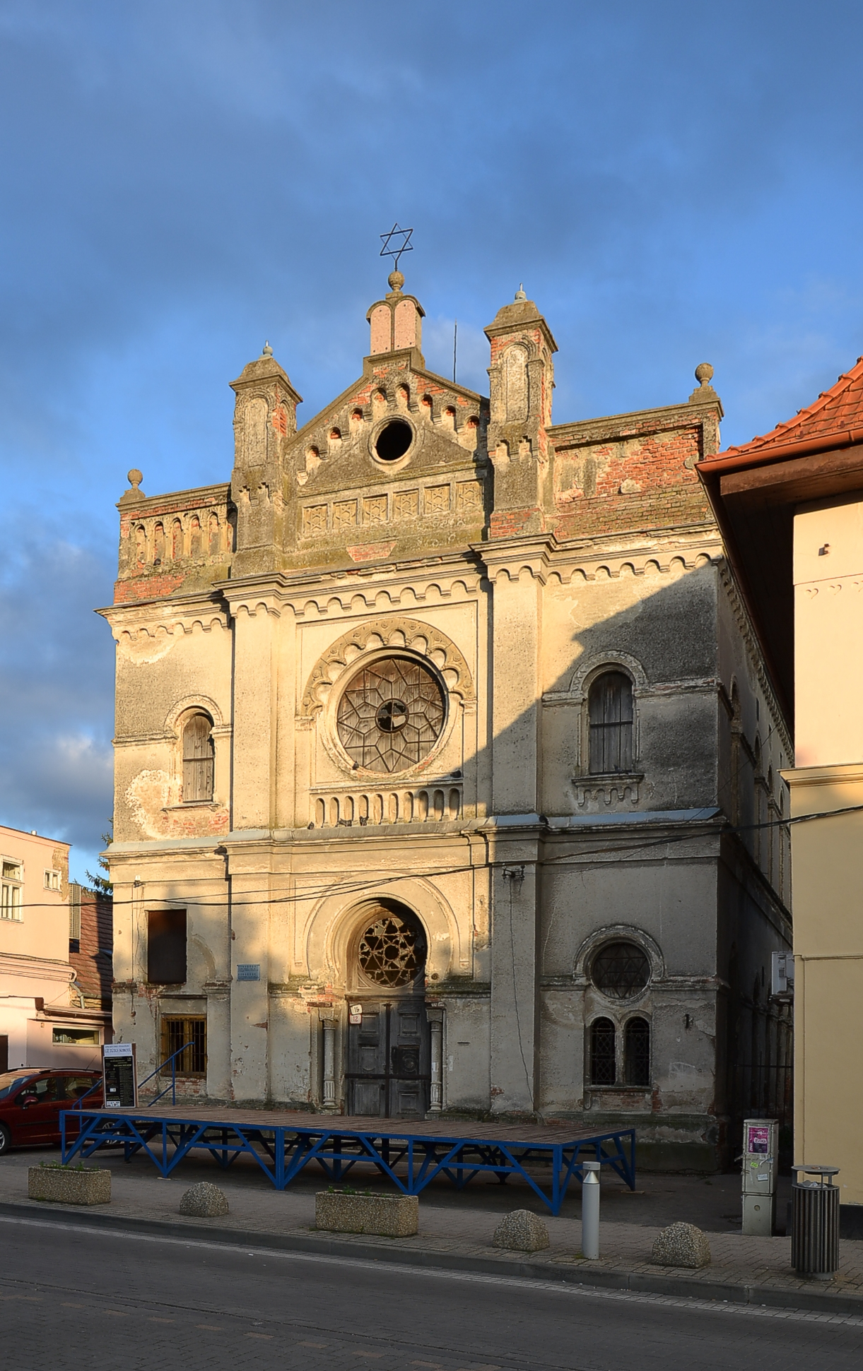 Synagogue in Senec (Szenc), Slovakia